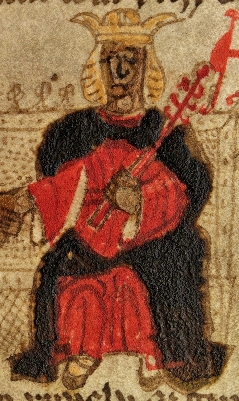 Croped from File:History of the Kings (f.18) Morgan and Cunedda.jpg